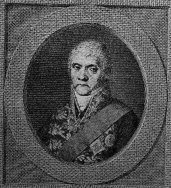 Andrey Italinsky